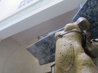 Ikara, a female Icarus, represents flight in this sculpture